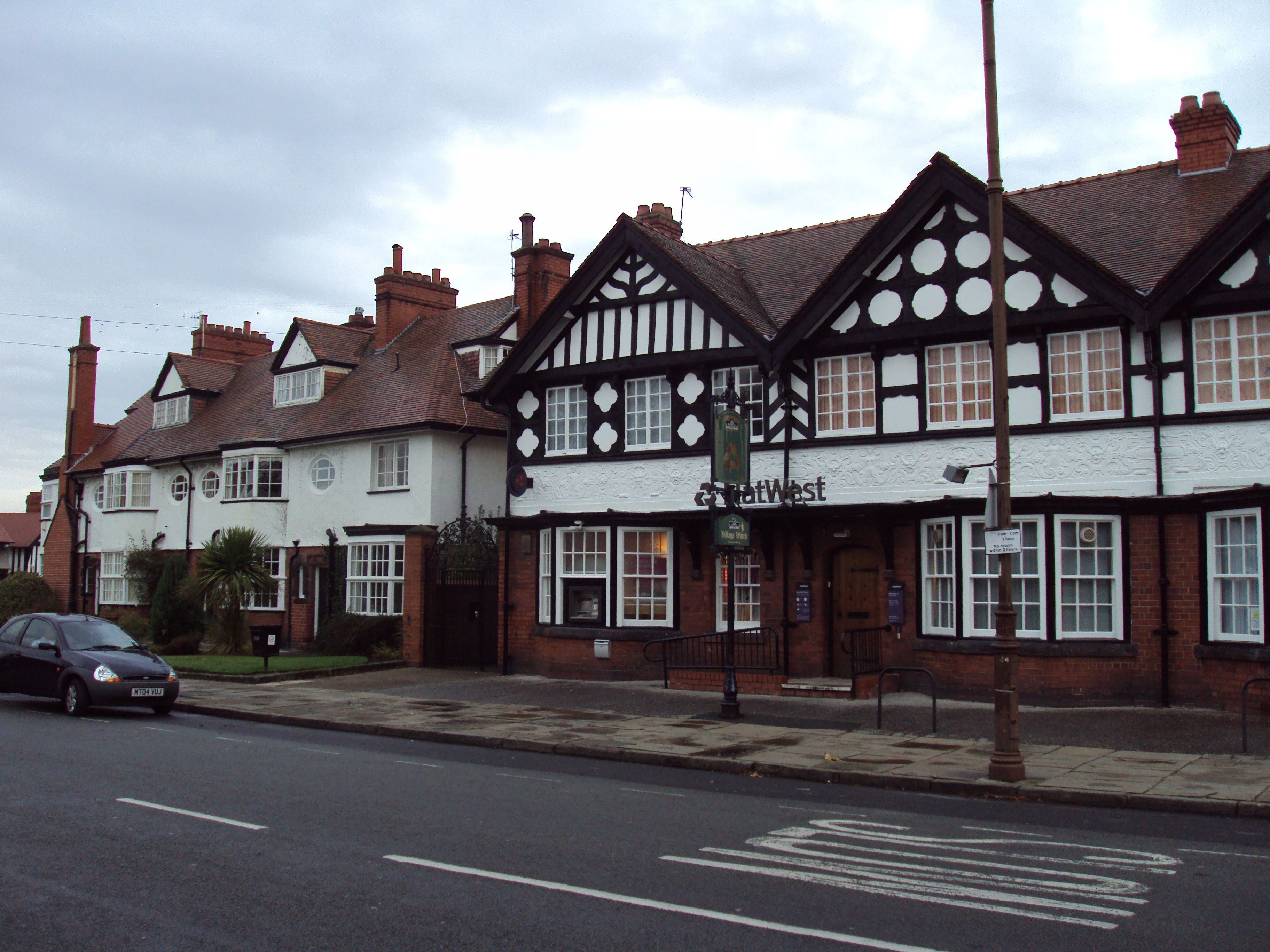 Bank on Greendale Road, Port Sunlight, Wirral, Merseyside, England.